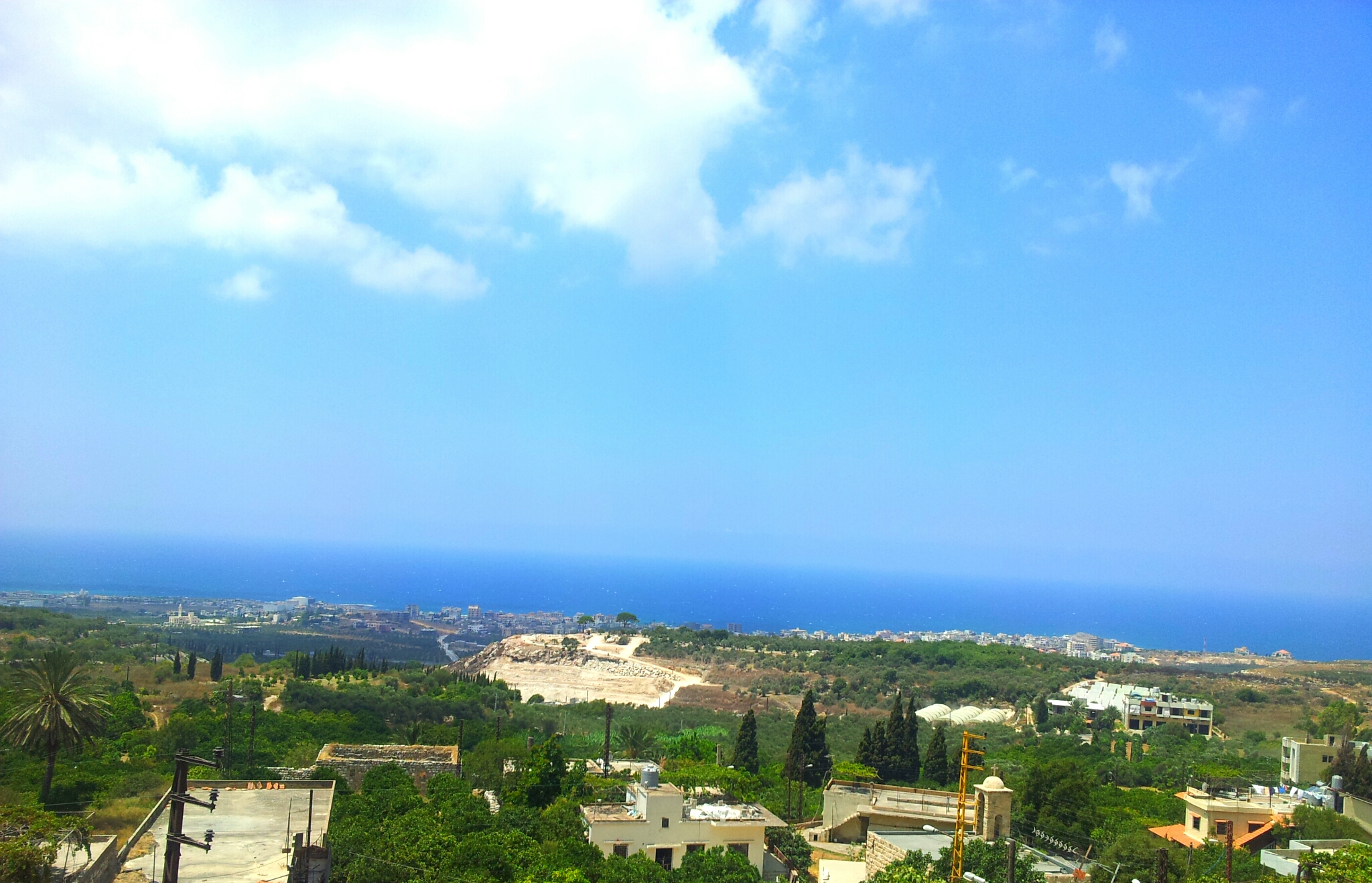 Zakroun is known for its beautiful nature and peaceful location